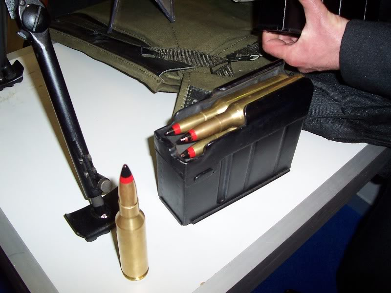 gun of istiglal